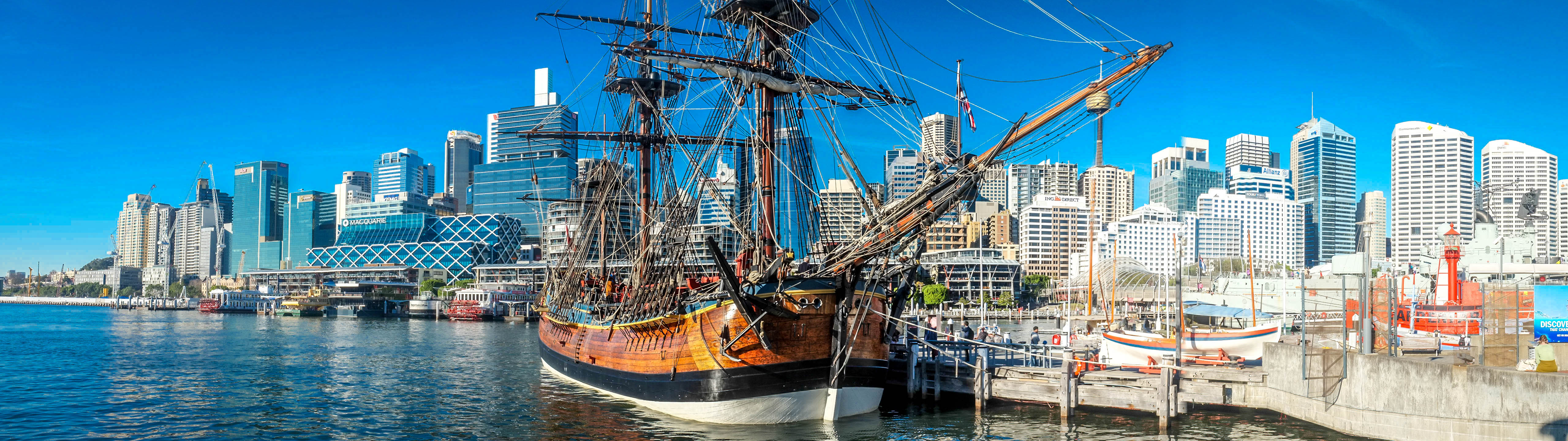 HM Bark Endeavour Replica